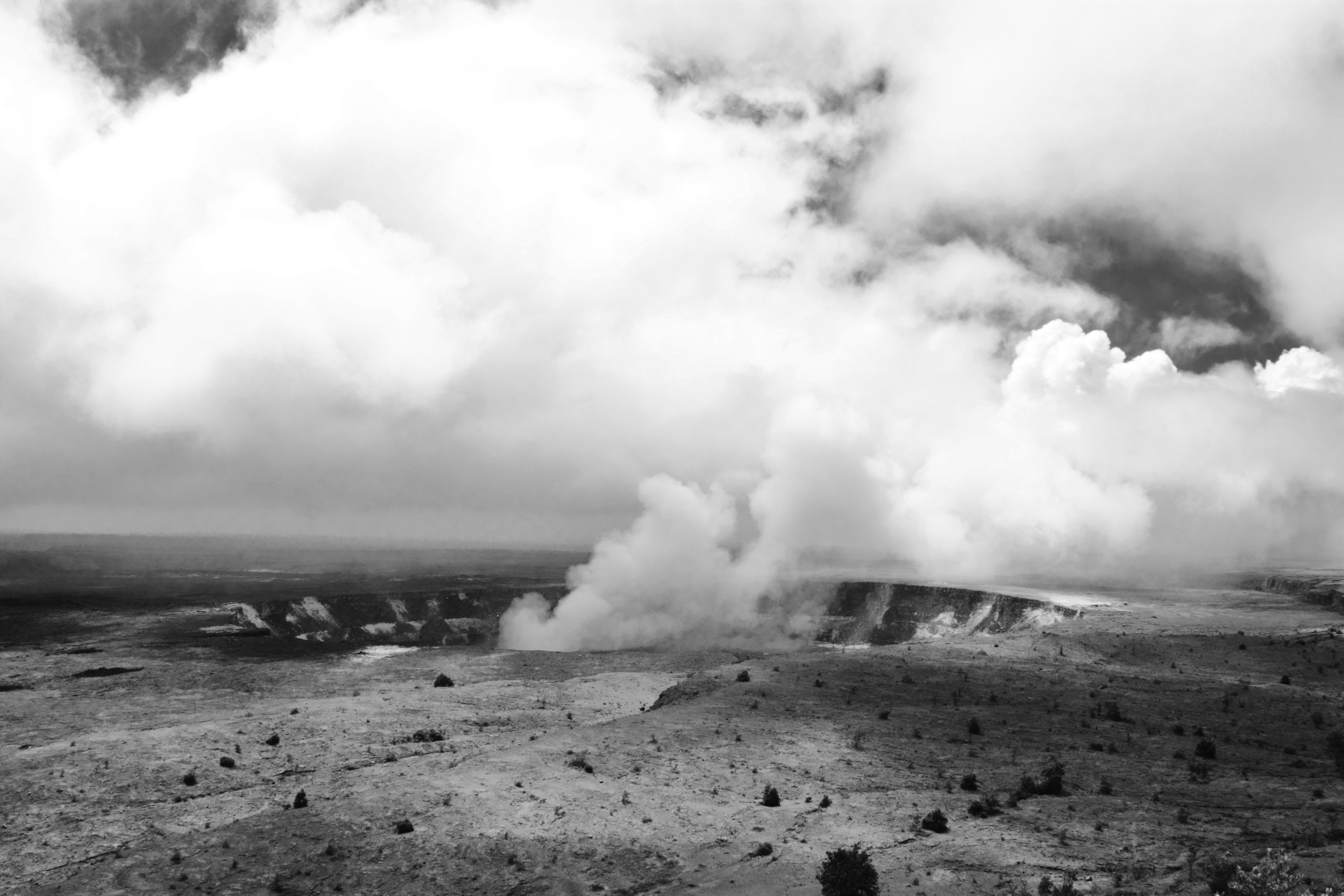 Kilauea Crater